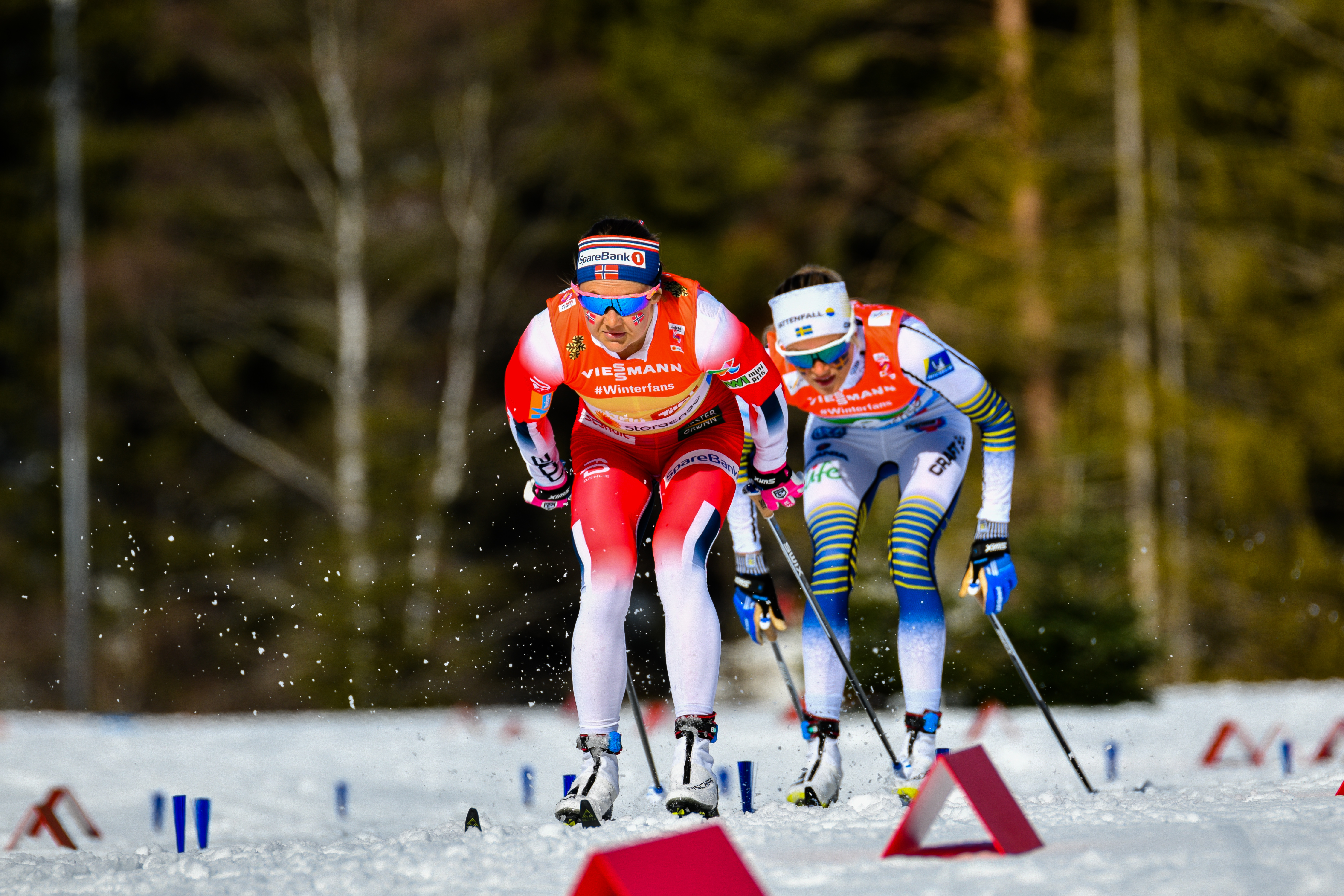 FIS Nordic World Ski Championships Seefeld 2019 - Ladies 4x5km Relay Classic/Free. Picture shows Ingvild Flugstad Oestberg (NOR), Frida Karlsson (SWE).